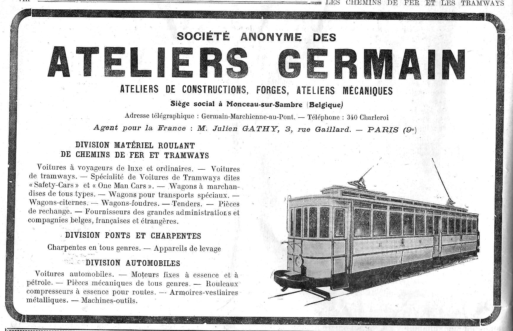 Ateliers Germain advertisement in 1927